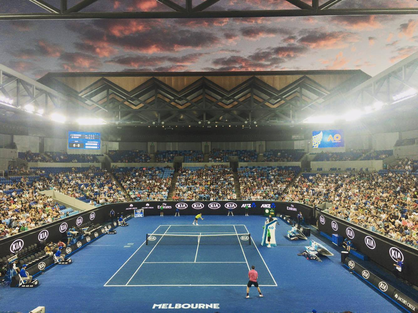 Australian Open 2017 - Stan Wawrinka v Martin Klizan (1R)